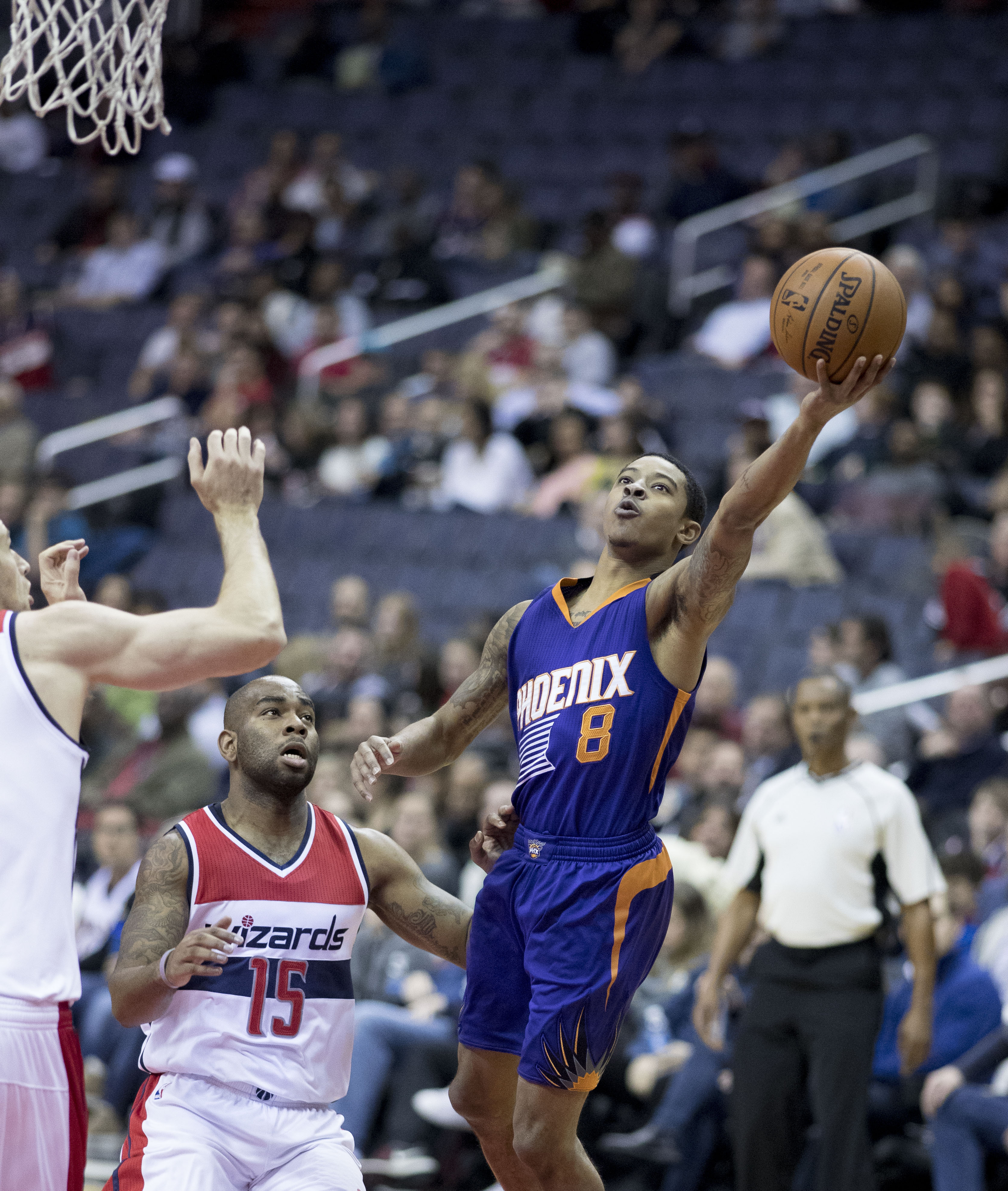 Suns at Wizards 11/21/16